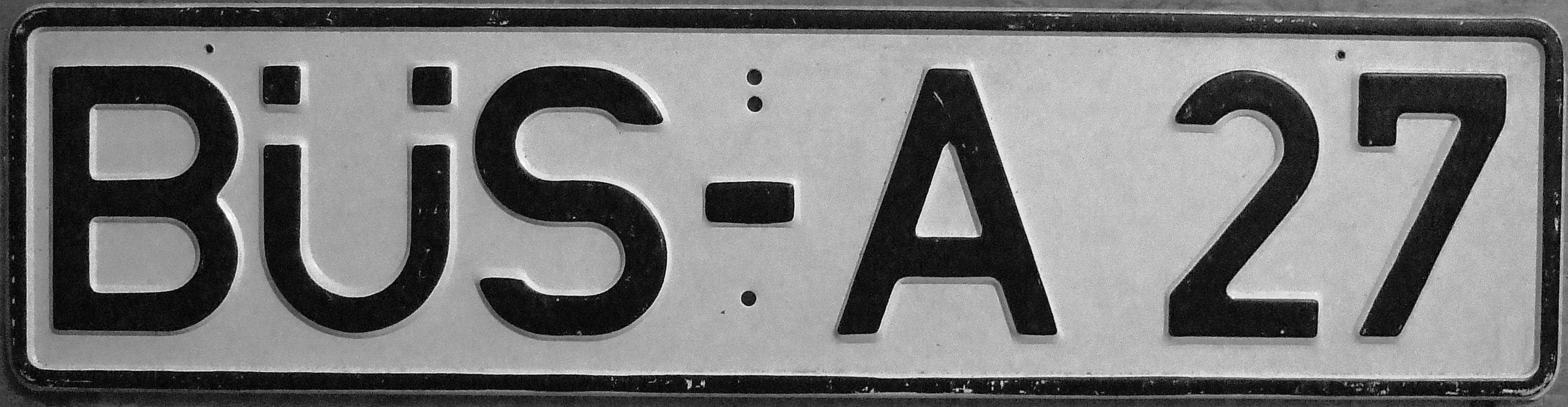 An old style West German plate, non-reflective from Busingen. Busingen is part of Germany but it is an enclave surrounded entirely by Switzerland. See comments for more detail.